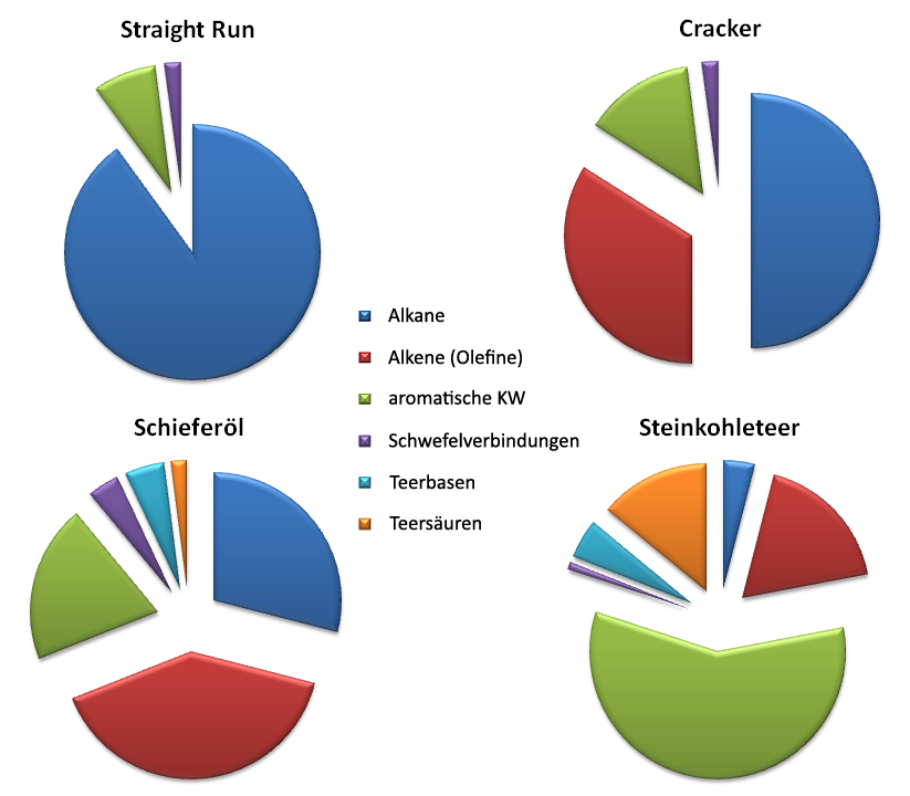 Pie charts on the compositions of different types of naphtha, after Dinneen et al. (1961),[1] created by means of MS Excel 2007.